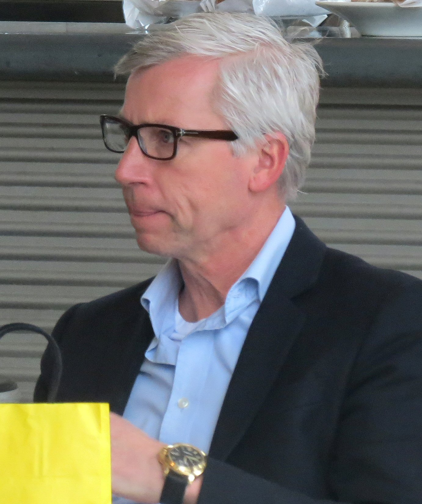 Alan Pardew, London, Feb 2012